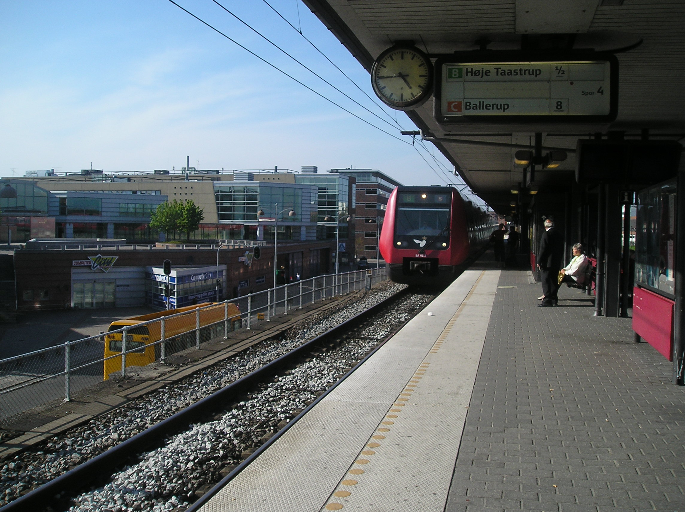 Copenhagen S-train station Nordhavn.